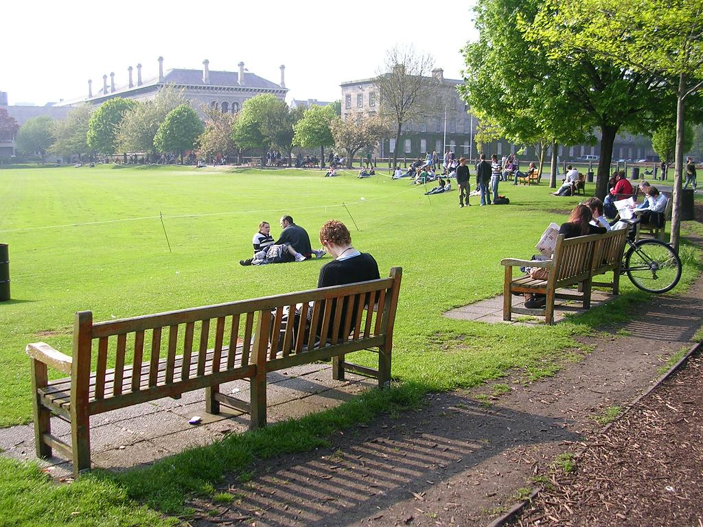 Trinity_College